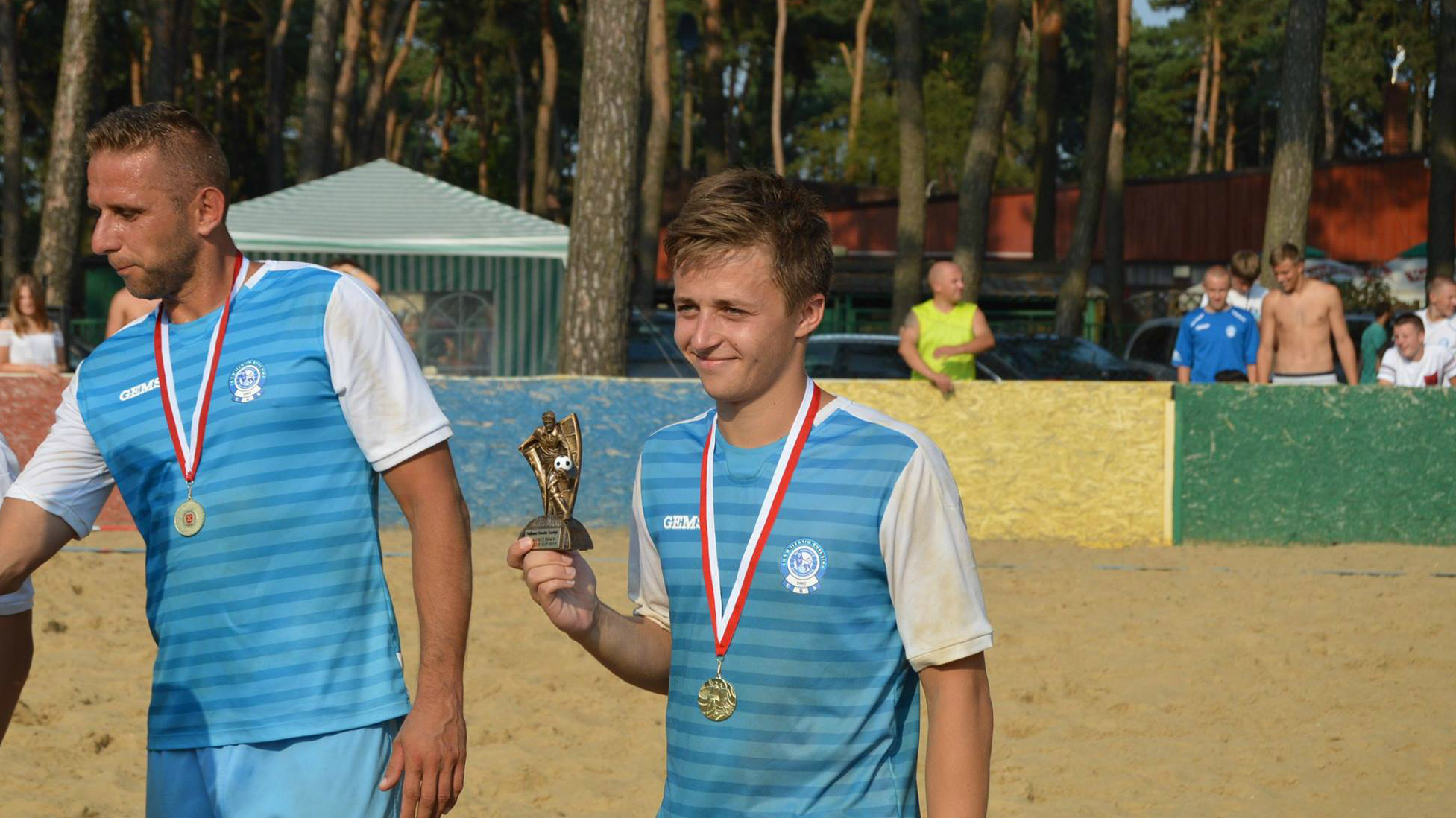 Polish beach soccer player - Dawid Burzawa